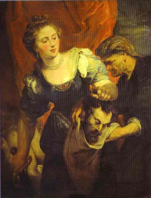 Judith with the Head of Holophernes